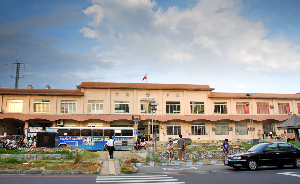 JhuNan Station is a local train station of Taiwan's Western main rail line. It's the main station of JhuNan Town, Miaoli County.